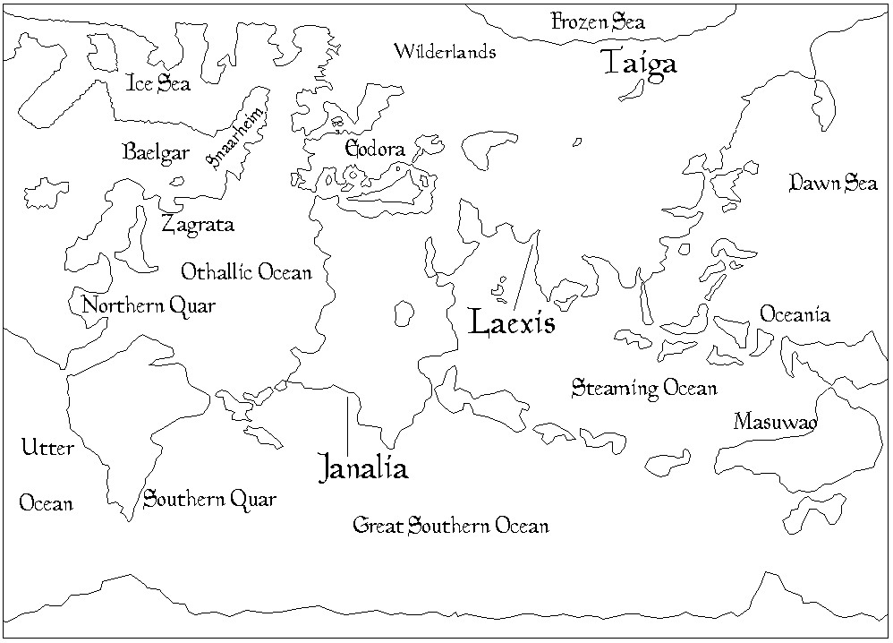 World of Enothril